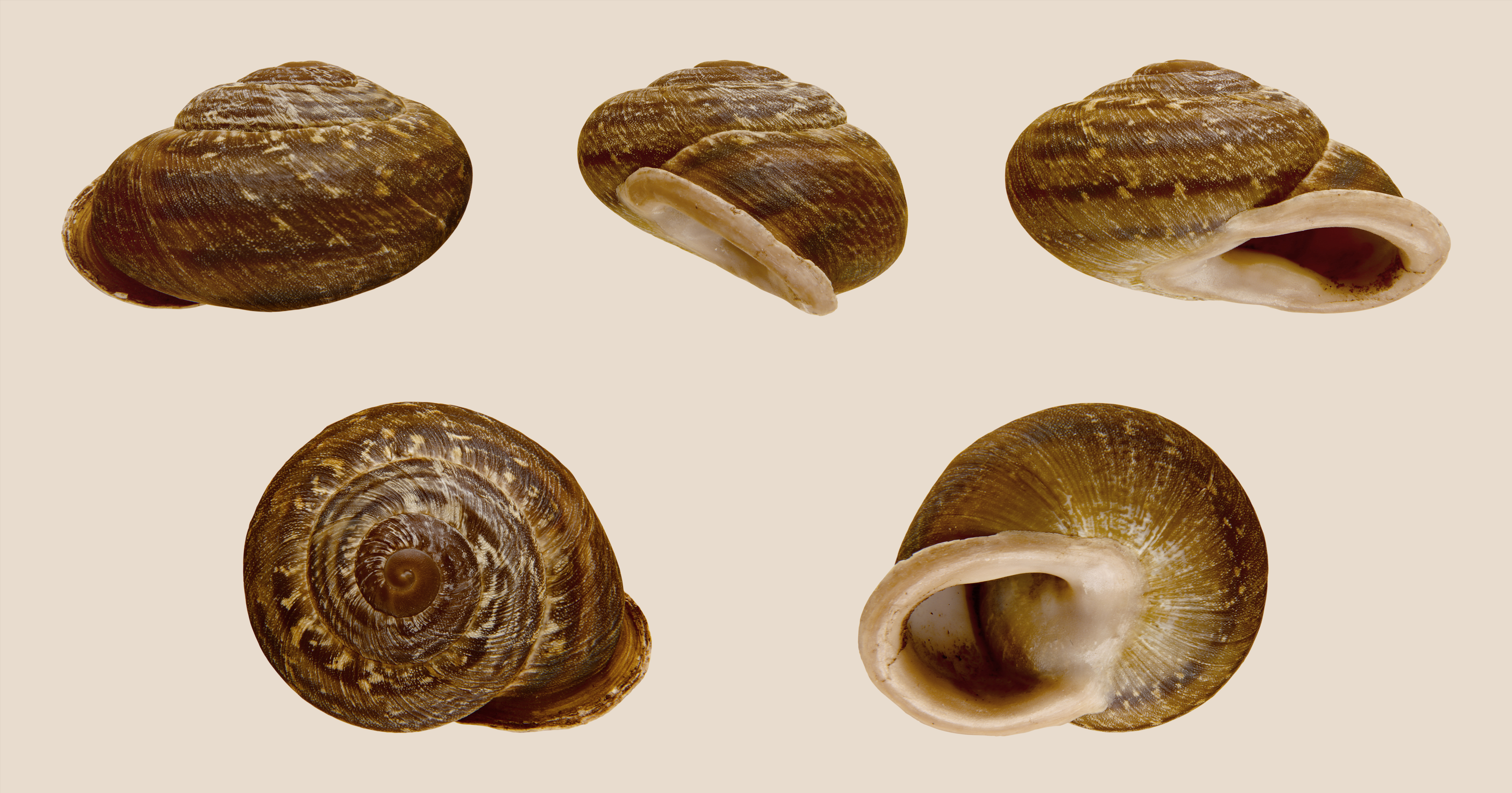 Diameter 2.5 cm; Originating from the Barranco de Guayadeque, Gran Canaria, Canary Islands, Spain, 27°56′0.49″N 15°28′13.14″W / 27.9334694°N 15.4703167°W; Shell of own collection, therefore not geocoded.